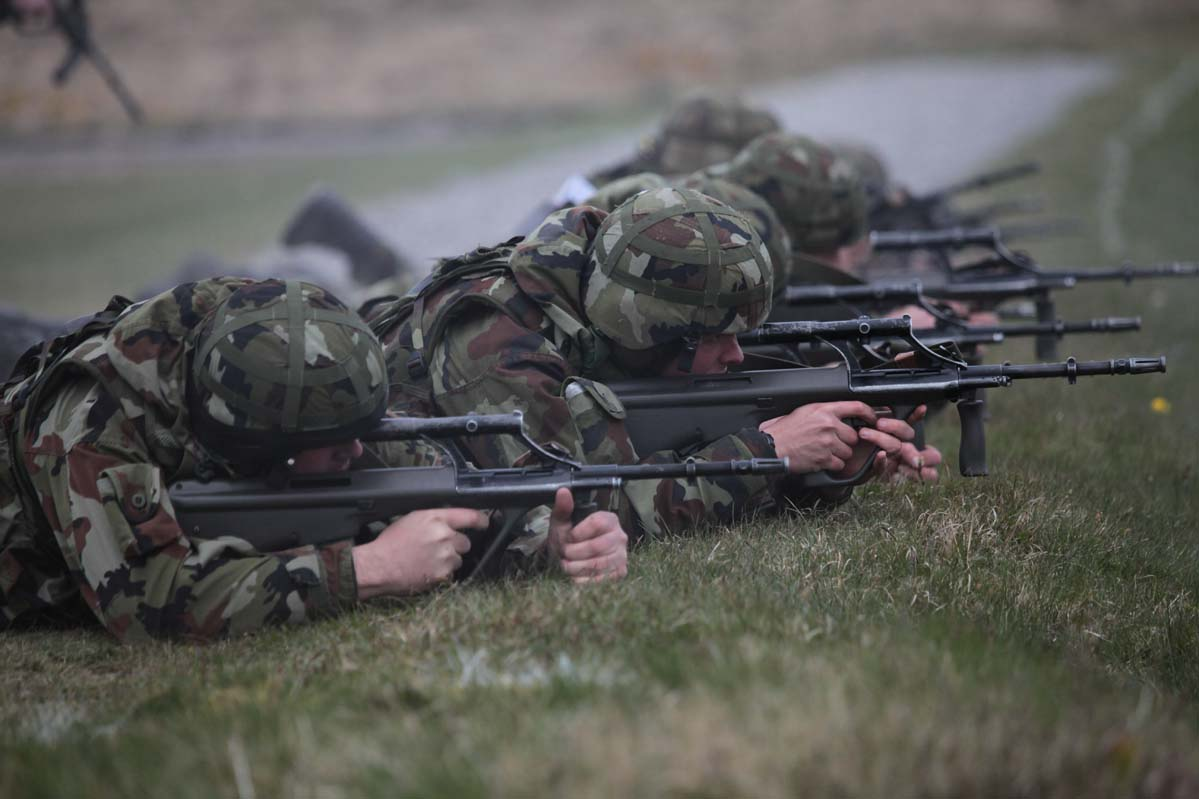 Fire!